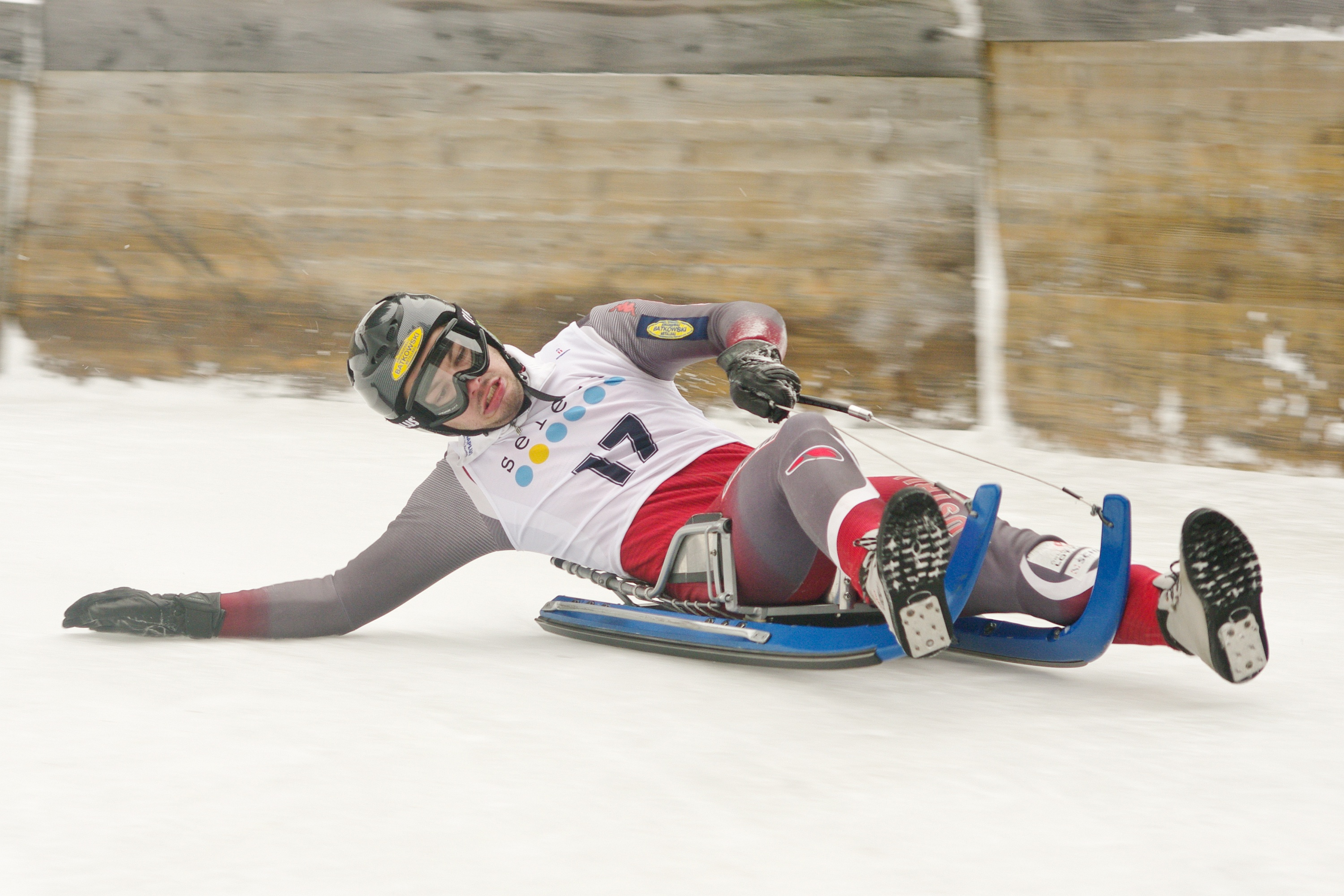 Austrian natural track luger Florian Batkowski at the Austrian Luge Natural Track Championships 2010 in St. Sebastian.